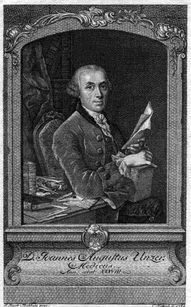 Portrait of Johann August Unzer, copper engraving, image: 160x97 ; plate: 170x105 mm; from frontispiece of first volume of his periodical Der Arzt